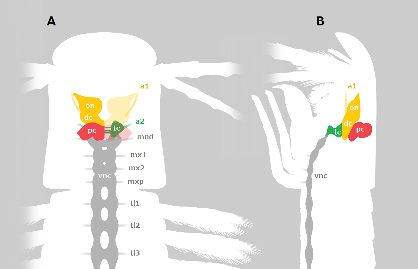 Central nervous system of a netiopodan remipede (Remipedia: Nectiopoda).